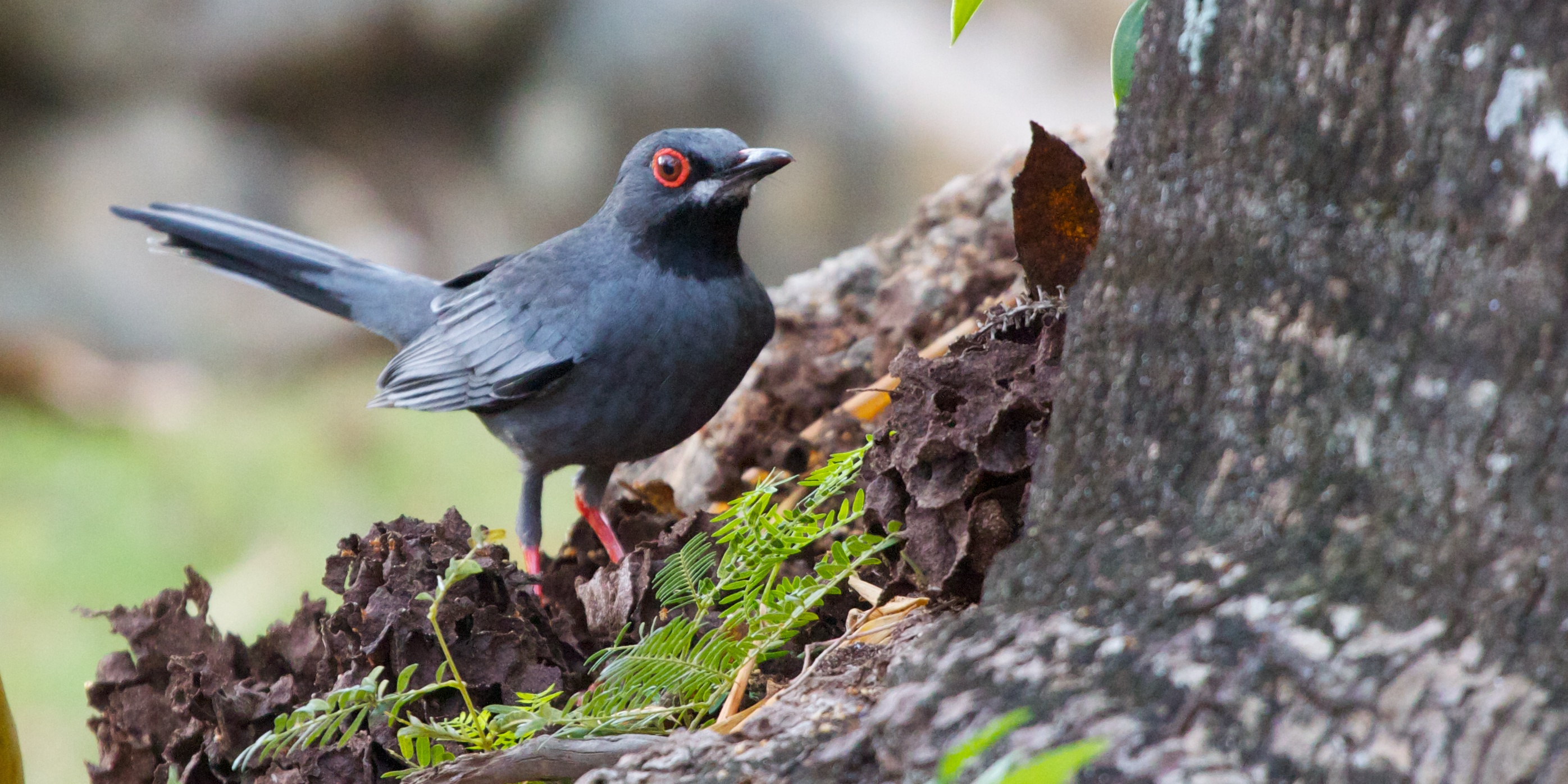 Red-legged Thrush Turdus plumbeus, Nicholls Town, North Andros, Bahamas